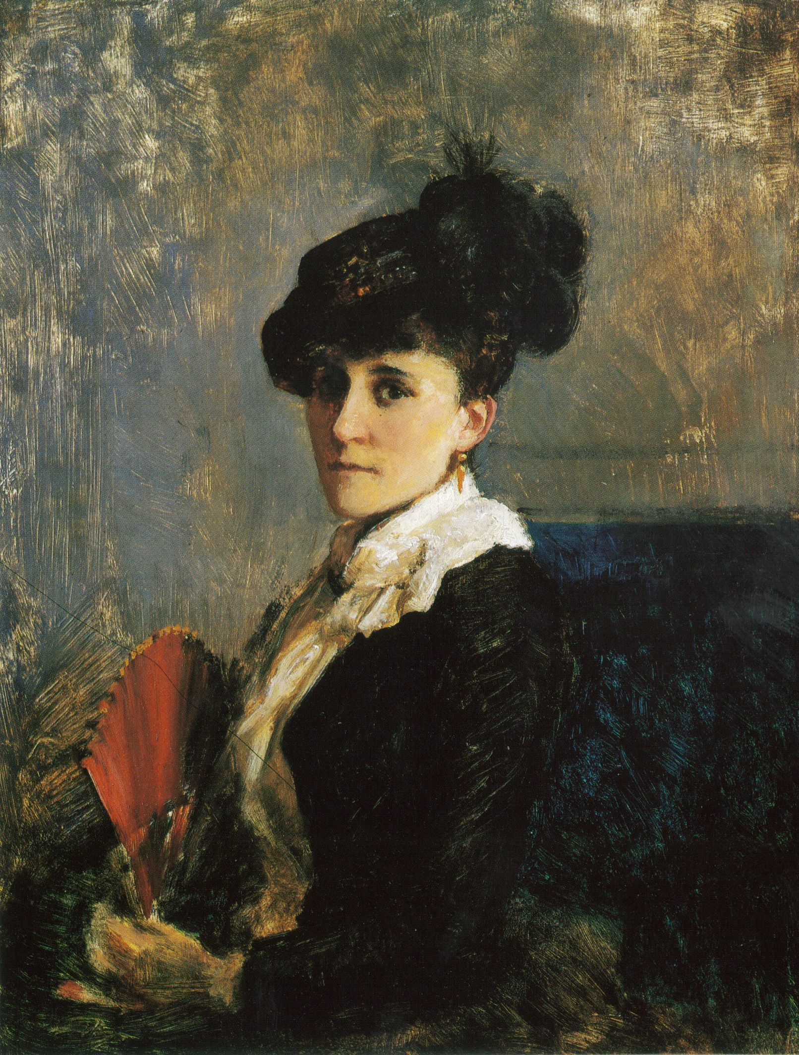 Incomplete portrait of the artists wife.